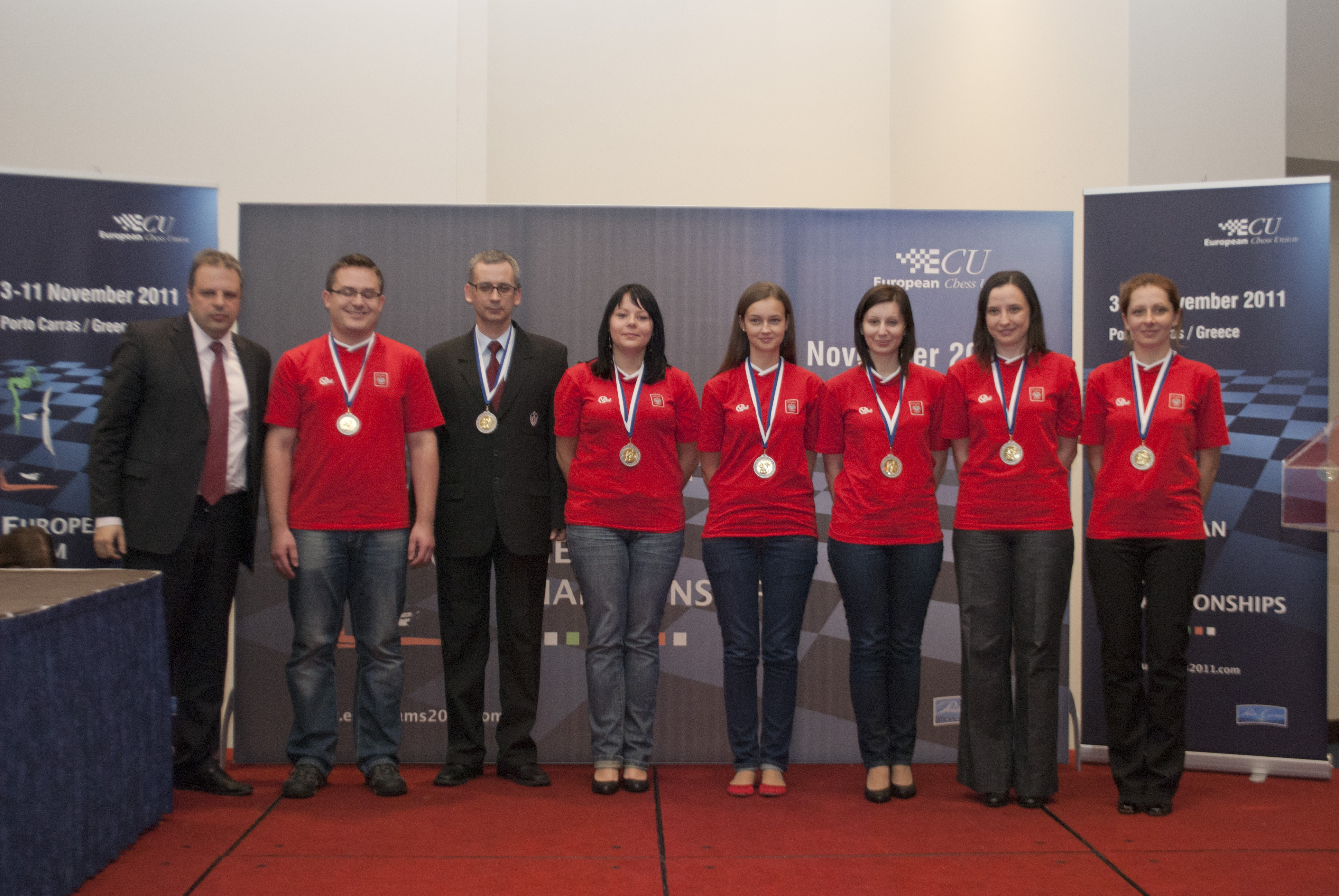 Porto Carras EchT 2011 - silver medal for Polish women's team.